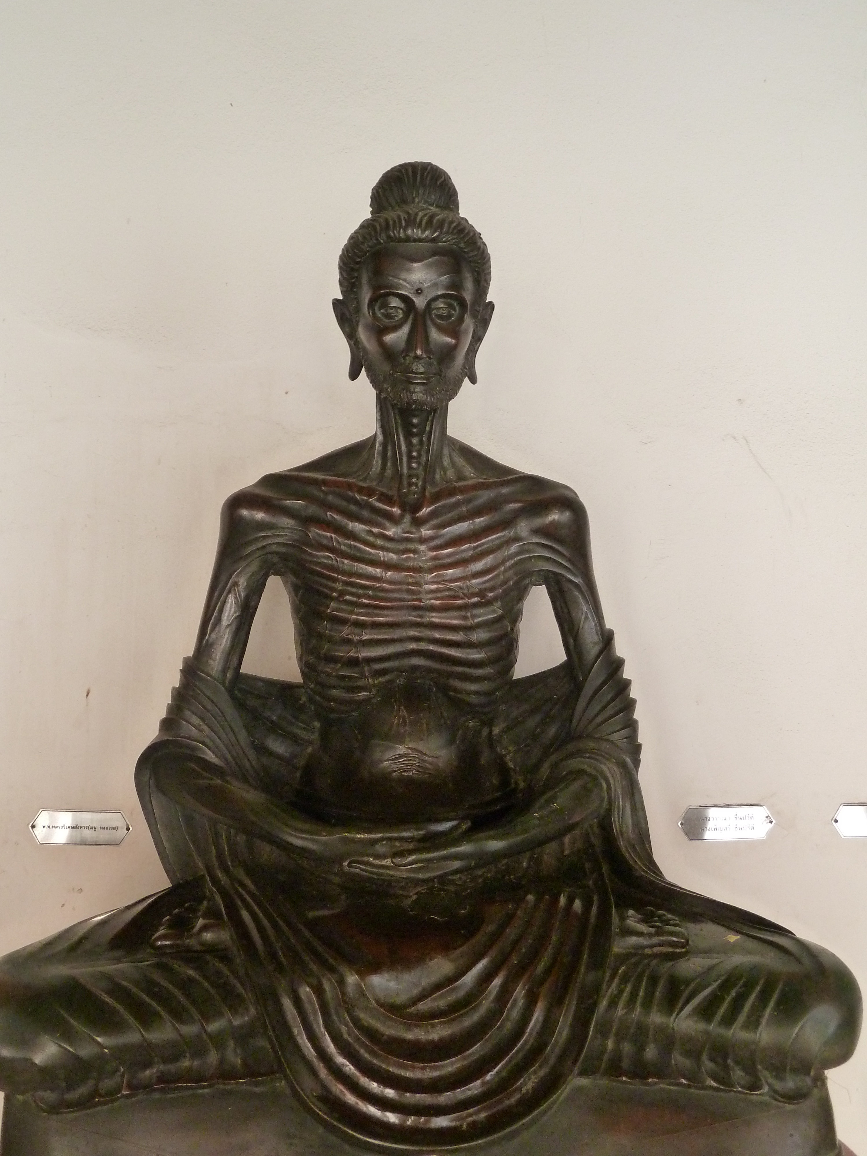 Wat Benchamabophit Dusitvanaram -Marble Temple Buddha Statues, Bangkok, Thailand